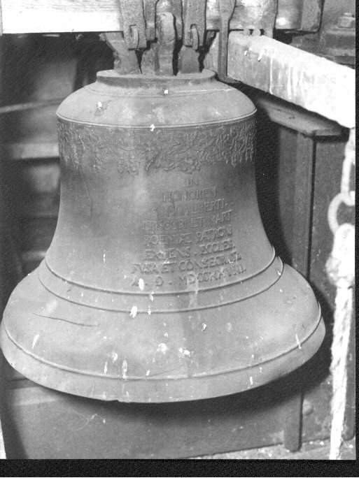 Bell in St. Simon and Jude Church in Stebno (Stöben), Ústí nad Labem District, Ústí nad Labem Region, Czech Republic. Bell by Antonín Schoenfeld of Prague from 1728.